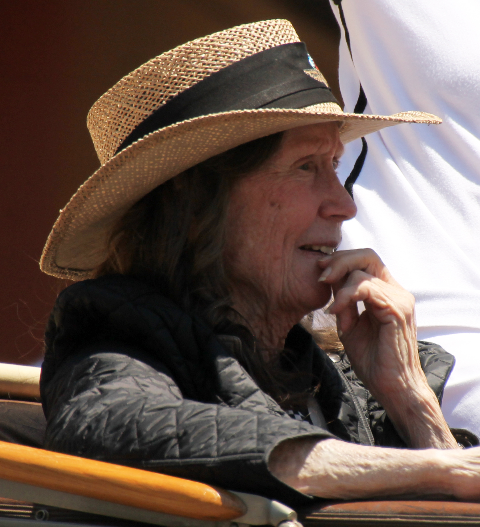 Mari Hulman George at the 2015 500 Festival in Indianapolis, Indiana